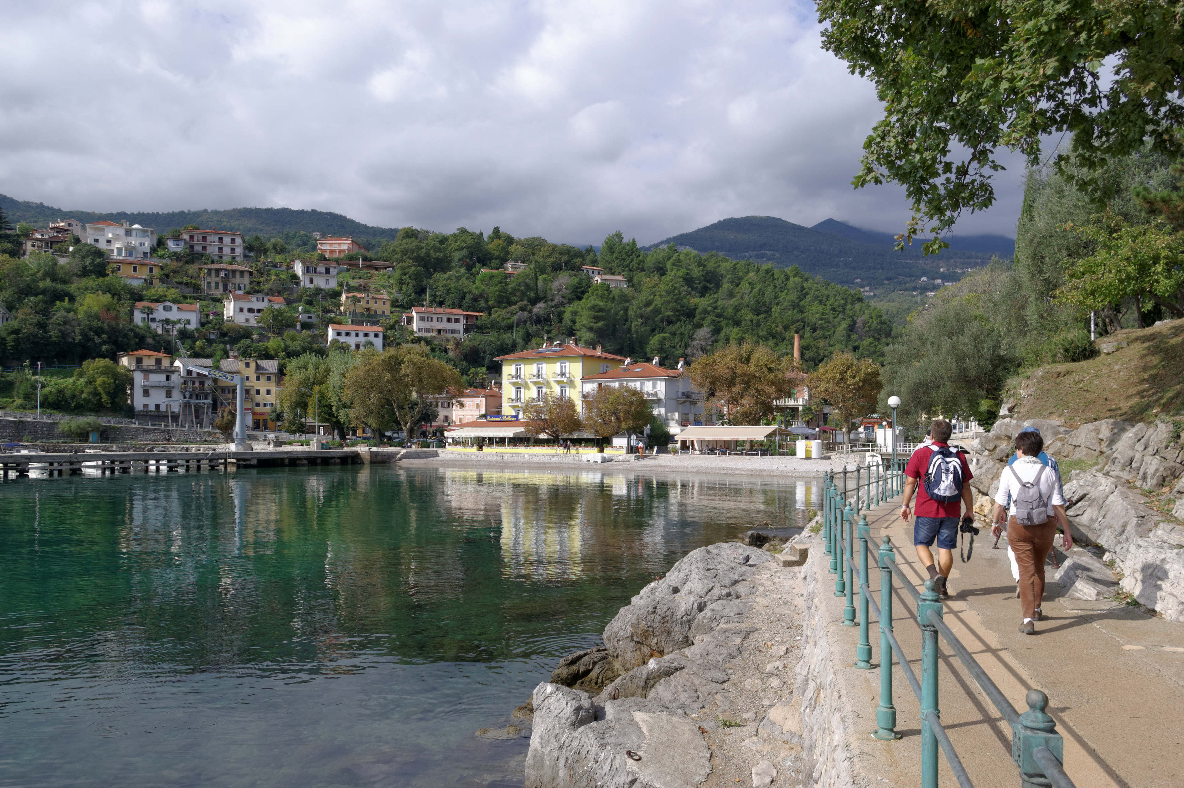 Croatia, Opatija, Lungomare